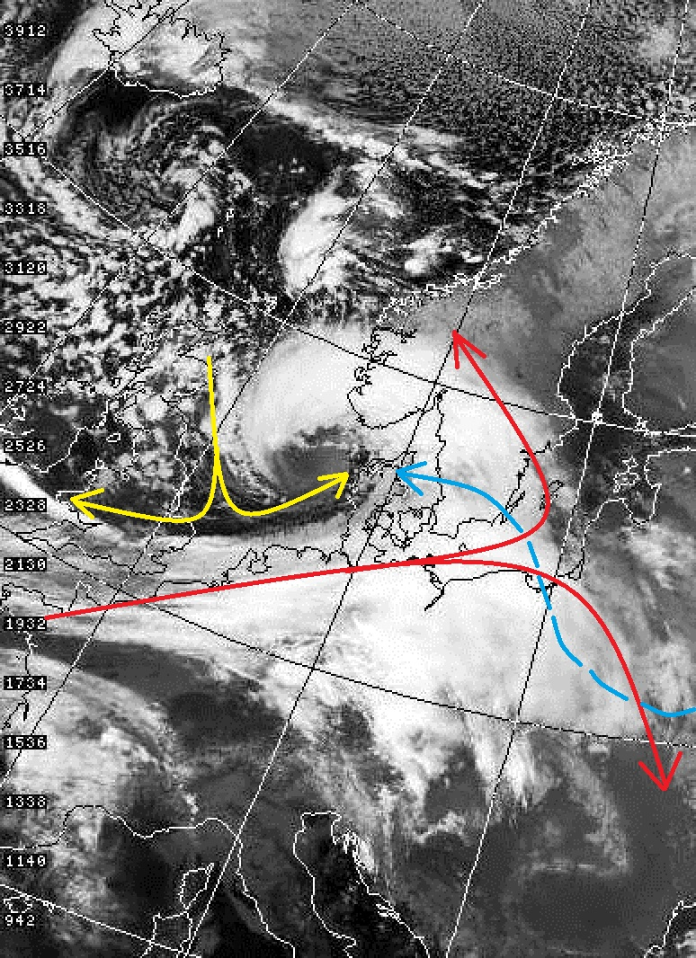 Adding cold (blue), warm (red) and dry (yellow) main flow of air around a mid-latitude low pressure systems, called conveyor belts, on a satellite picture of the clouds. Here it is with Storm Anatol of 1999.